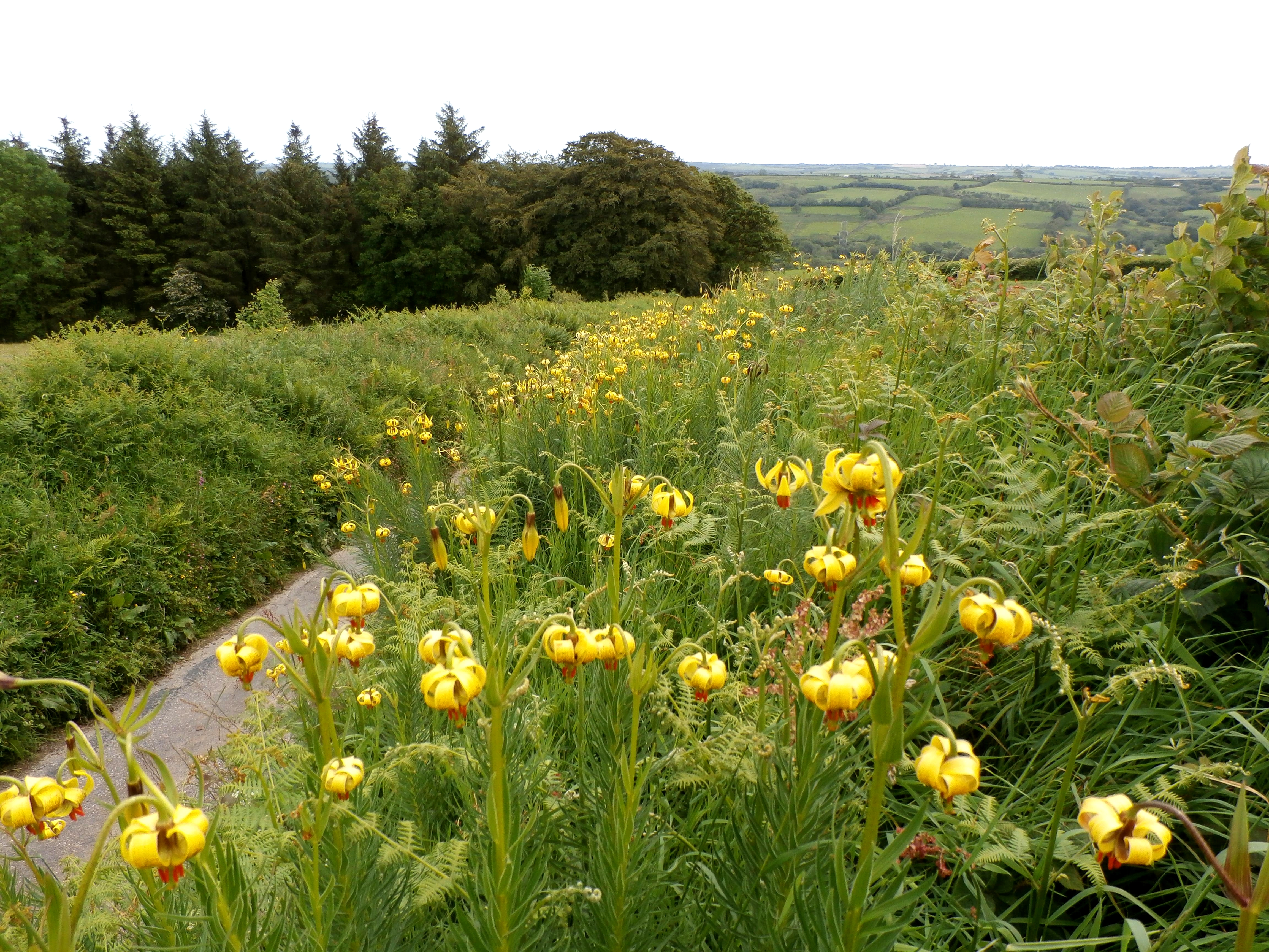 Lilium Pyrenaicum growing wild on a hedgebank in the parish of Molland, Devon, where it is known as the "Molland Lily". Church kneelers in St Mary's Church, Molland, are embroidered with "Molland Lilies".